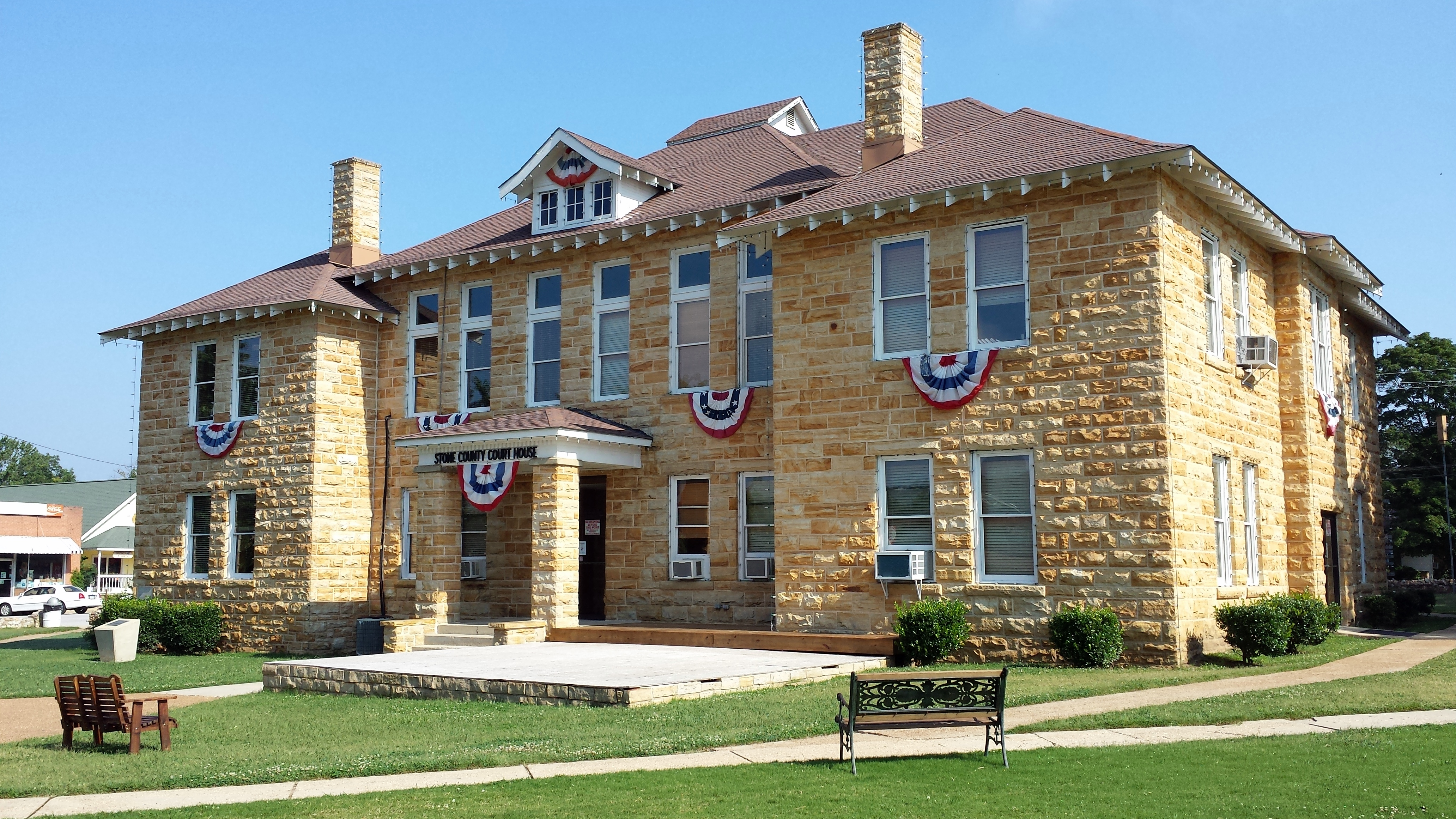 facade